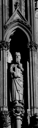 Moses from the west wall of Nidarosdomen.